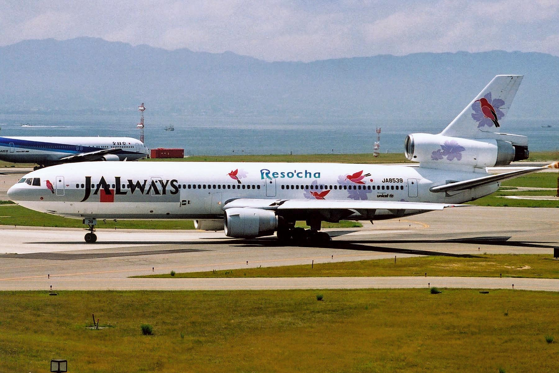 "Reso'cha" c/scheme, left side.